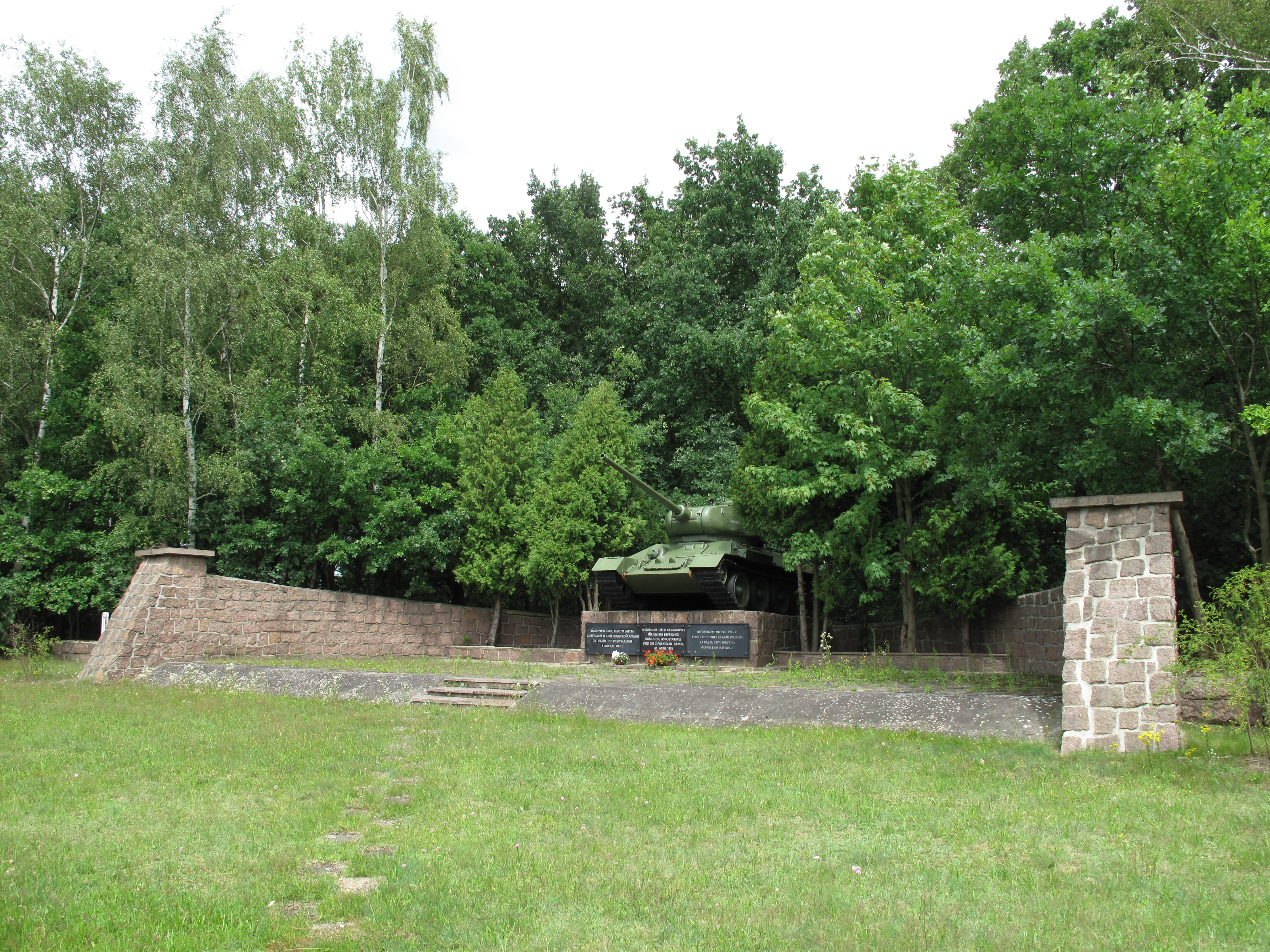 Memorial to the war fightings in 1945; Square design; Historically significant; Soviet/Polish cenotaph; Tank T-34[1][2] as part of the memorial in Rothenburg/Oberlausitz; erected 1969[2] ↑ a b Panzerdenkmal in Rothenburg/O.L. ↑ a b c d Webseite der Stadt Rothenburg/O.L.